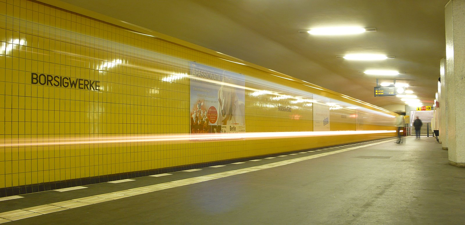 Subway Station Borsigwerke Berlin